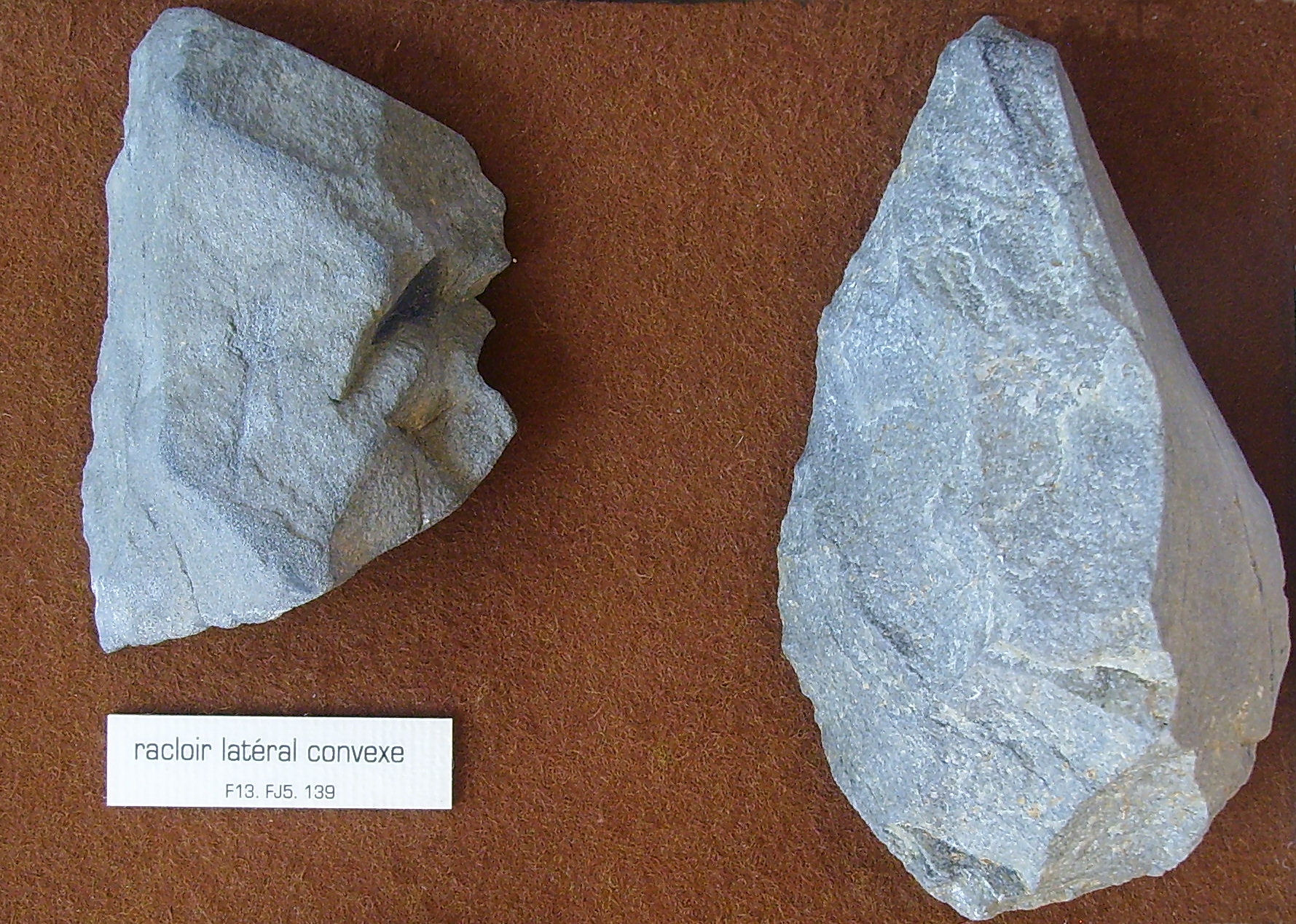 Museum Tatavel: Stone tool from Tautavel (Arago Cave), France